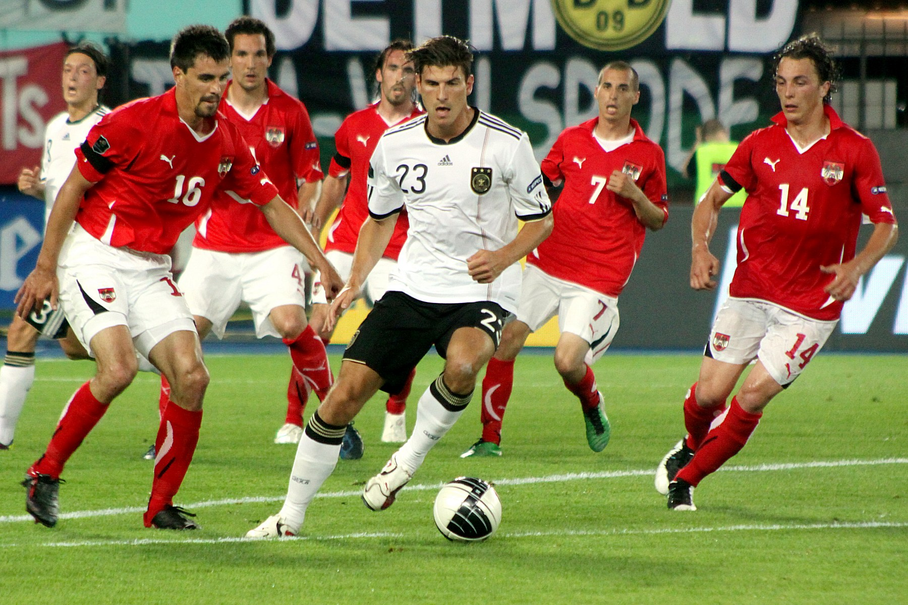 Qualifying for the UEFA Euro 2012 Austria (red shirt) vs. Germany (white Shirt) 1:2 (0:1) at 2011-06-03 in Vienna (Ernst-Happel-Stadion) — The photo shows (fron left to right): Mesut Özil (Real Madrid), Paul Scharner (West Bromwich Albion), Emanuel Pogatetz (Hannover 96), Christian Fuchs (1. FSV Mainz 05), Mario Gómez (FC Bayern München), Stefan Kulovits (SK Rapid Wien), Julian Baumgartlinger (FK Austria Wien).